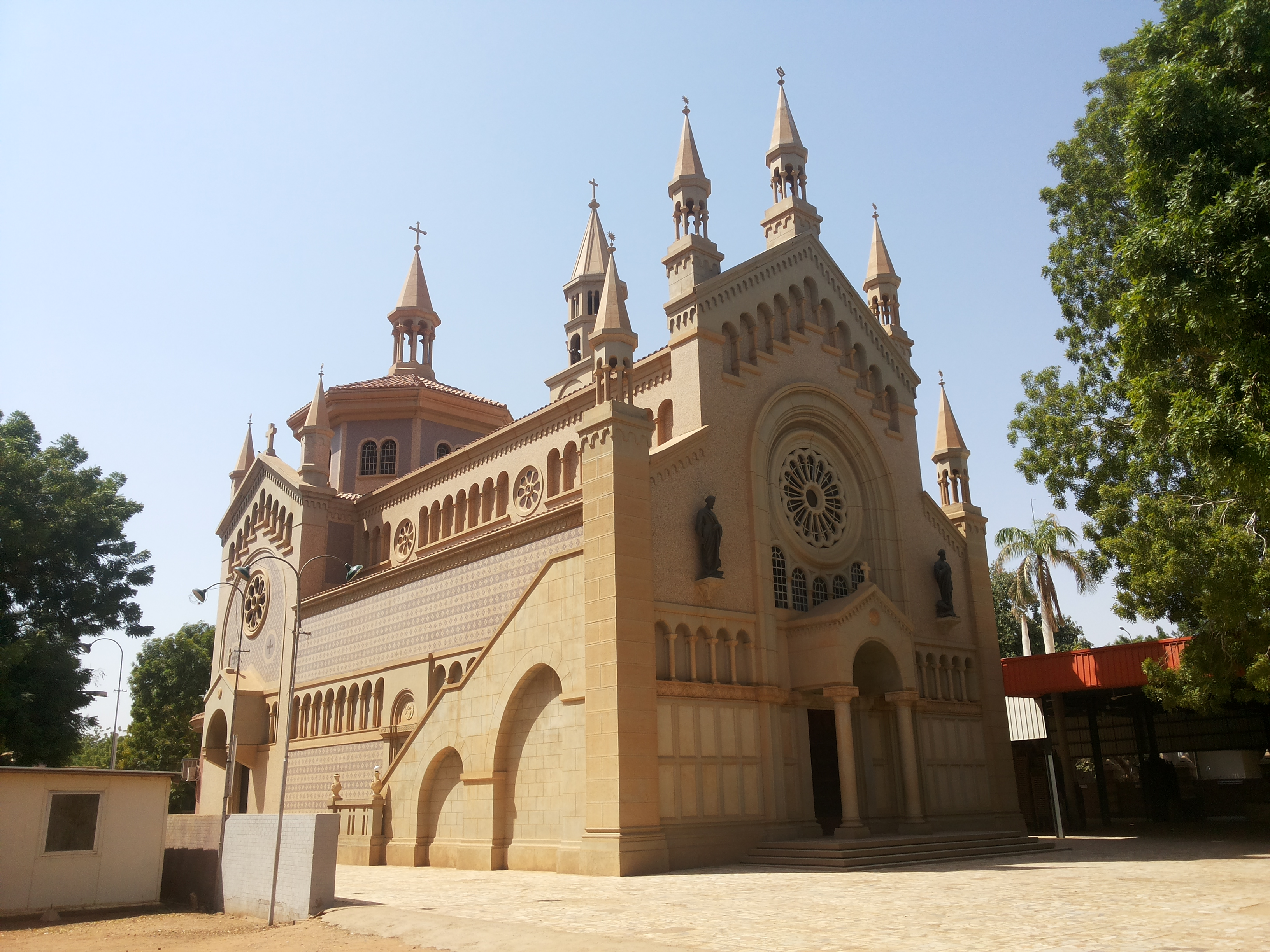 St. Matthew's Cathedral, Khartoum